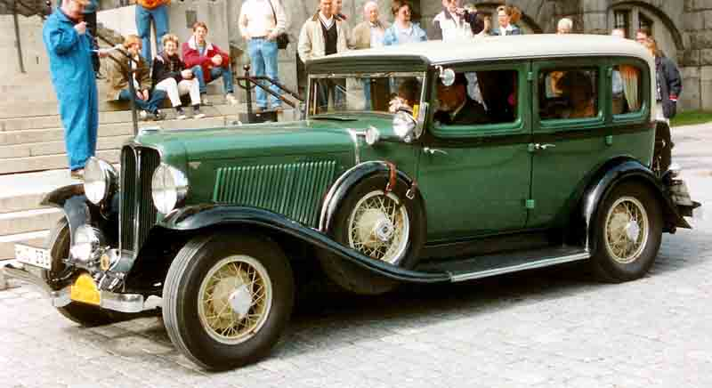 Auburn 8-100A Custom 4-Door Sedan 1932